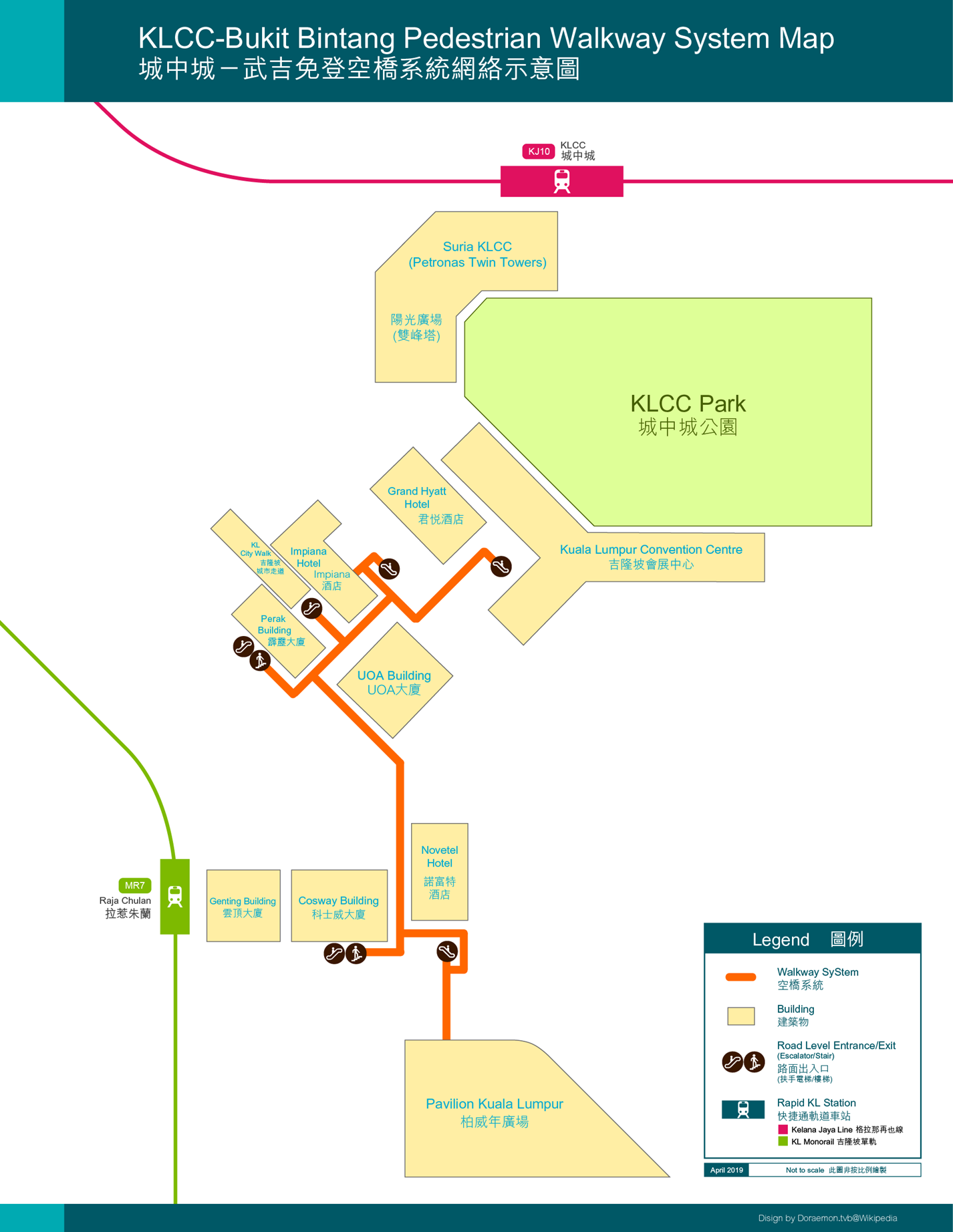 KLCC-Bukit Bintang Walkway